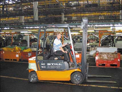 Conveyor system of AvtoVAZ